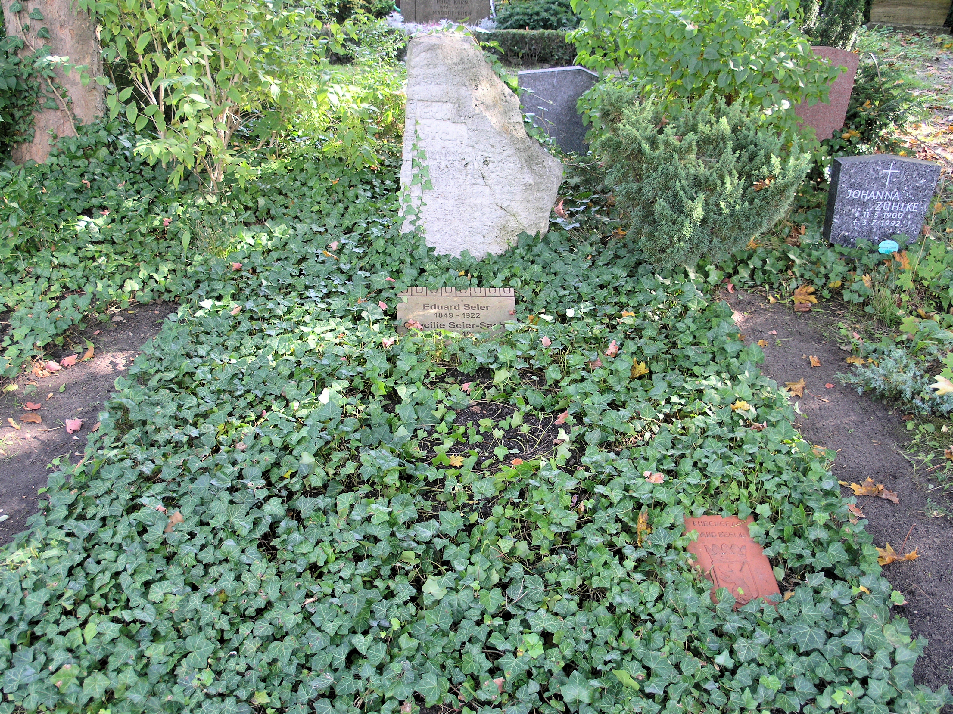 "Ehrengrab" (grave of honor), Eduard Seler, Bergstraße 38, Berlin-Steglitz, Germany